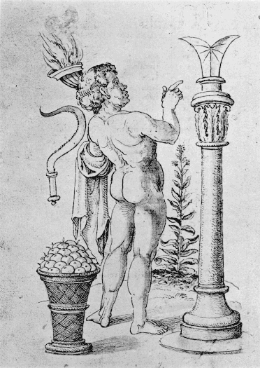 Month of June from in the Chronography of 354 by the 4th century kalligrapher Filocalus. The copies of the original illustrations are pen drawings in a 17th century manuscript from the Barberini collection (Vatican Library, cod. Barberini lat. 2154).